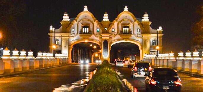 Puente Adolfo Alsina 2015